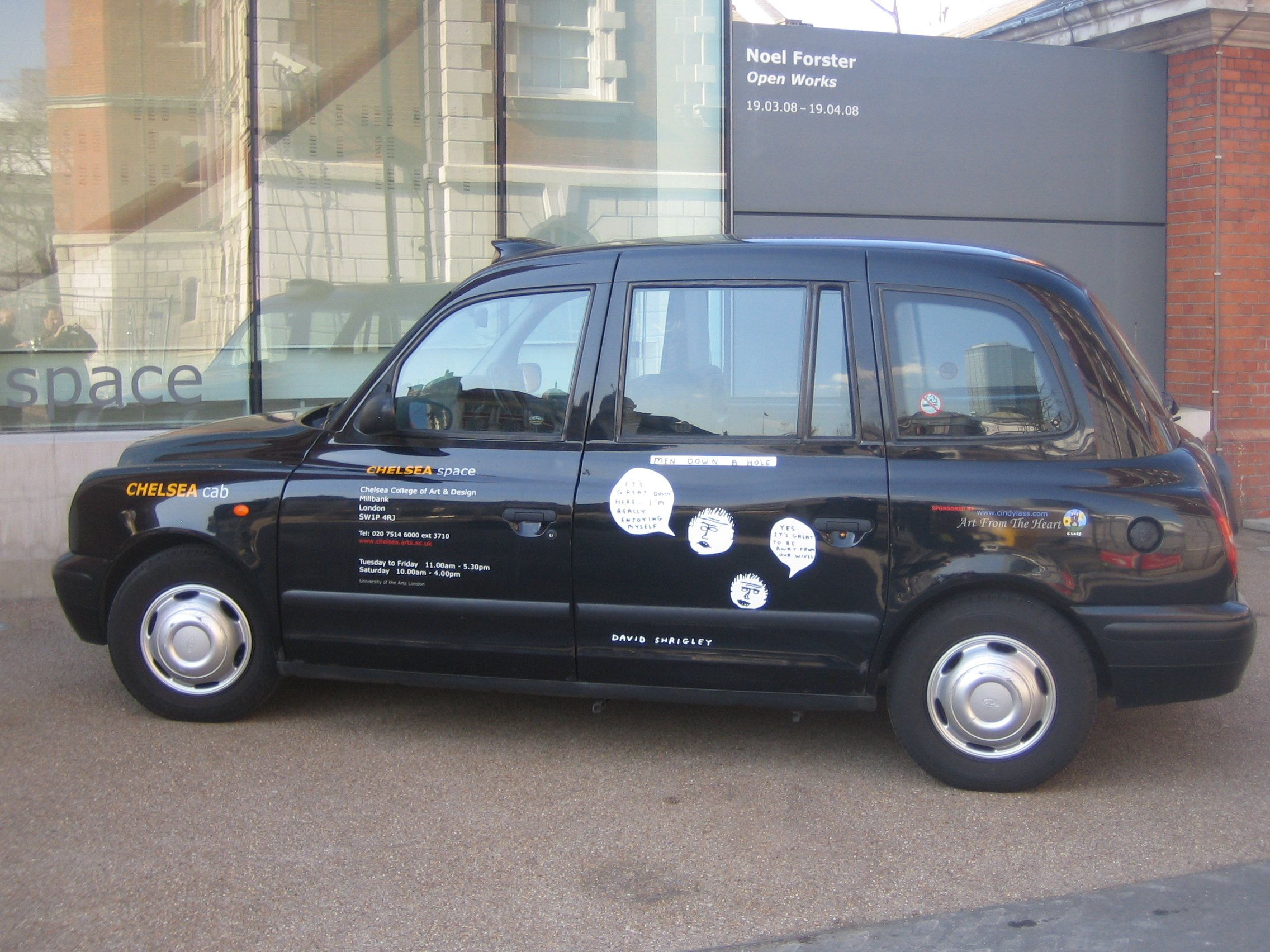 David Shrigley exterior on Chelsea cab outside Chelsea space